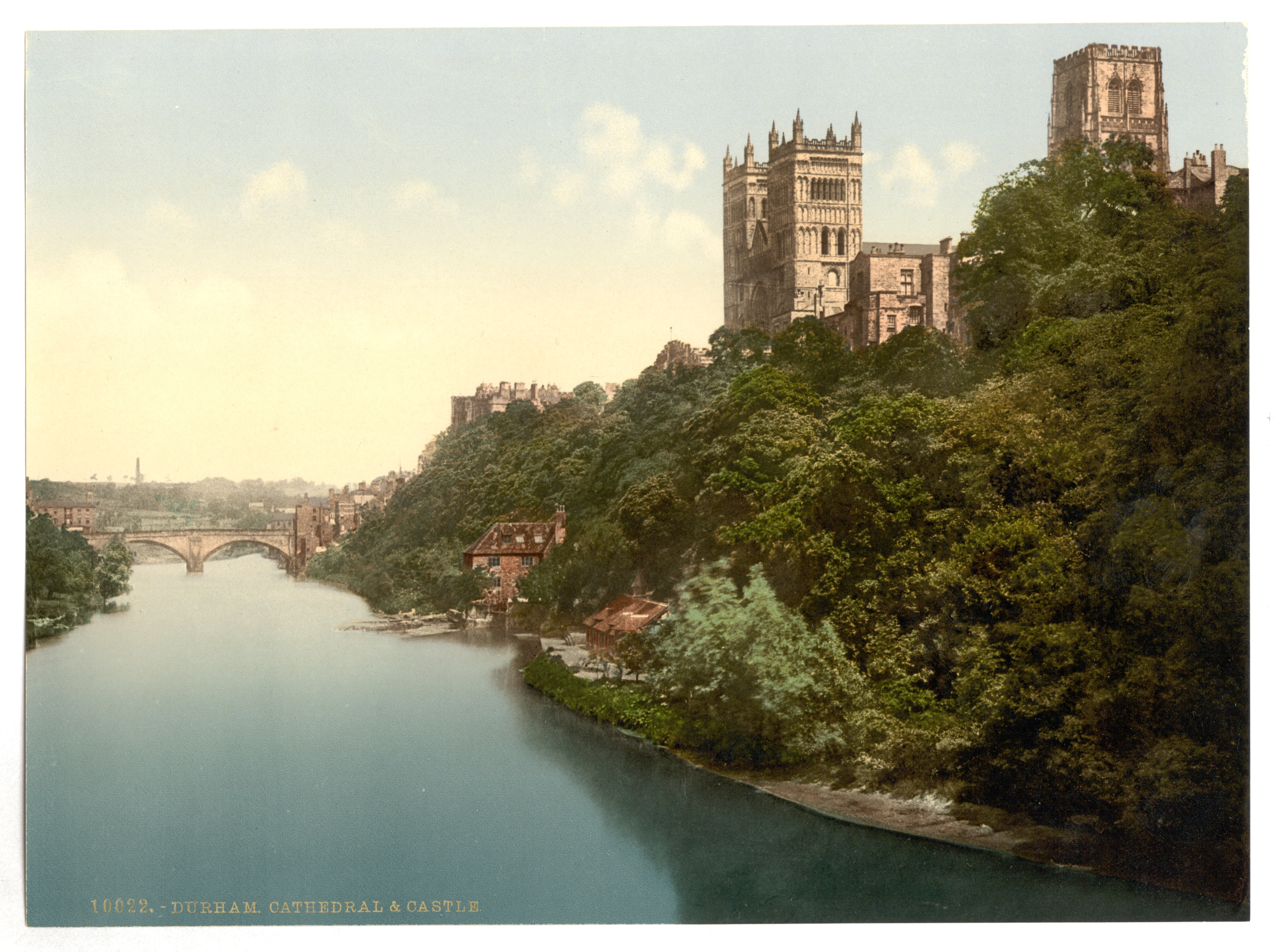 Forms part of: Views of the British Isles, in the Photochrom print collection.; More information about the Photochrom Print Collection is available at Title from the Detroit Publishing Co., Catalogue J-foreign section, Detroit, Mich. : Detroit Publishing Company, 1905.; Print no. "10022".